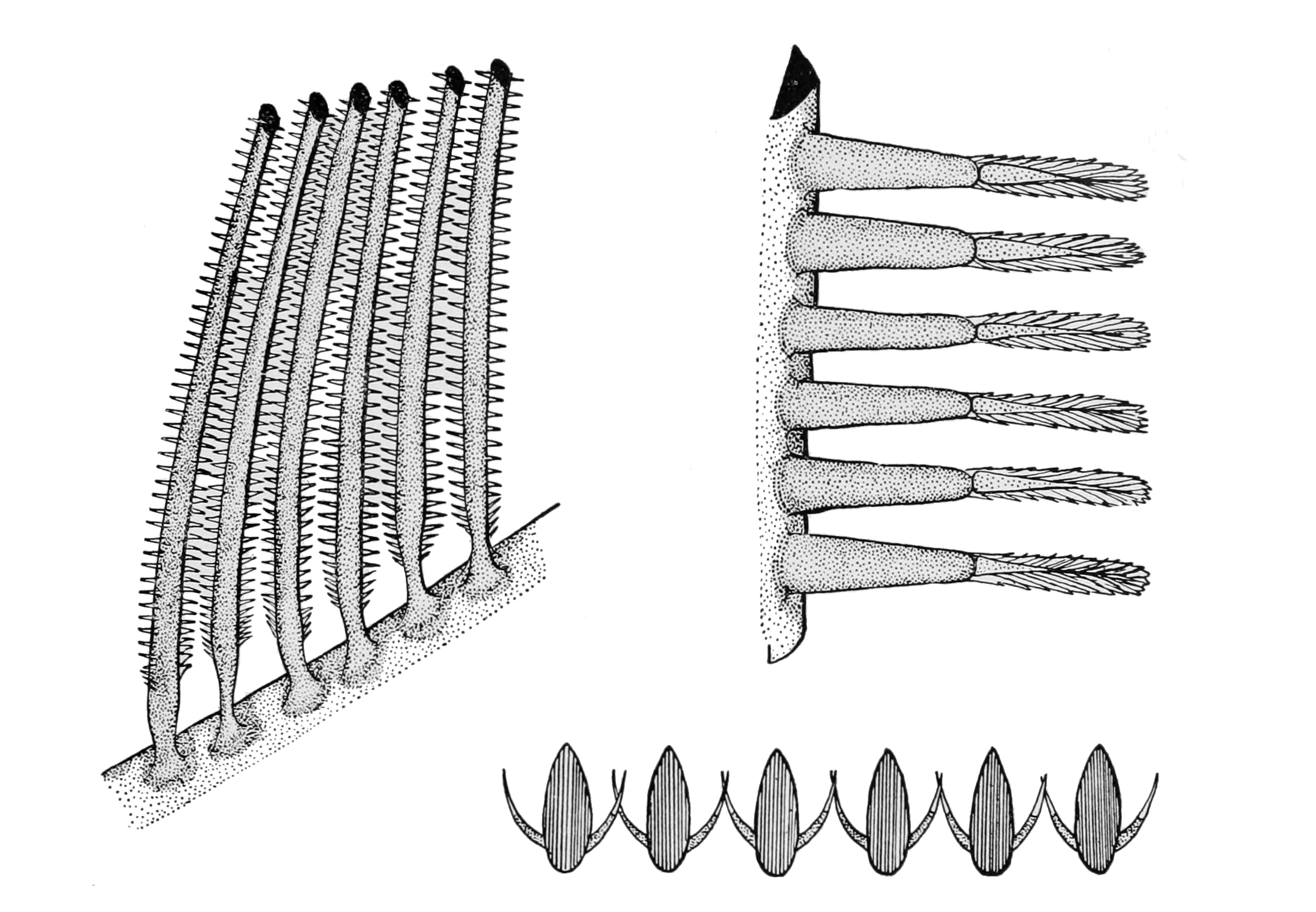 1-Six of a series of gill-rakers attached to the gill-arch, showing ythe projecting rows of hooks, enlarged 50 times. 2-Six of the hooks attached to the gill-raker, enlarged 178 times. 3-diagram of gill-rakers in cross section, showing angle at wich hooks project from their point of attachment in toward the throat cavity, and the current of water passing out from it.